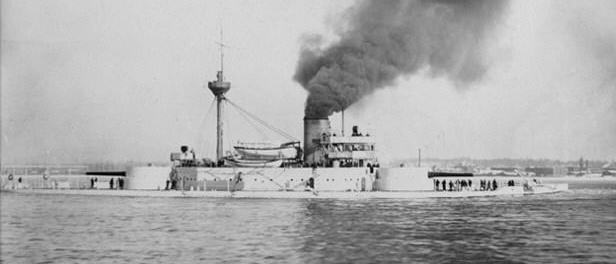 The USS Puritan (BM-1).